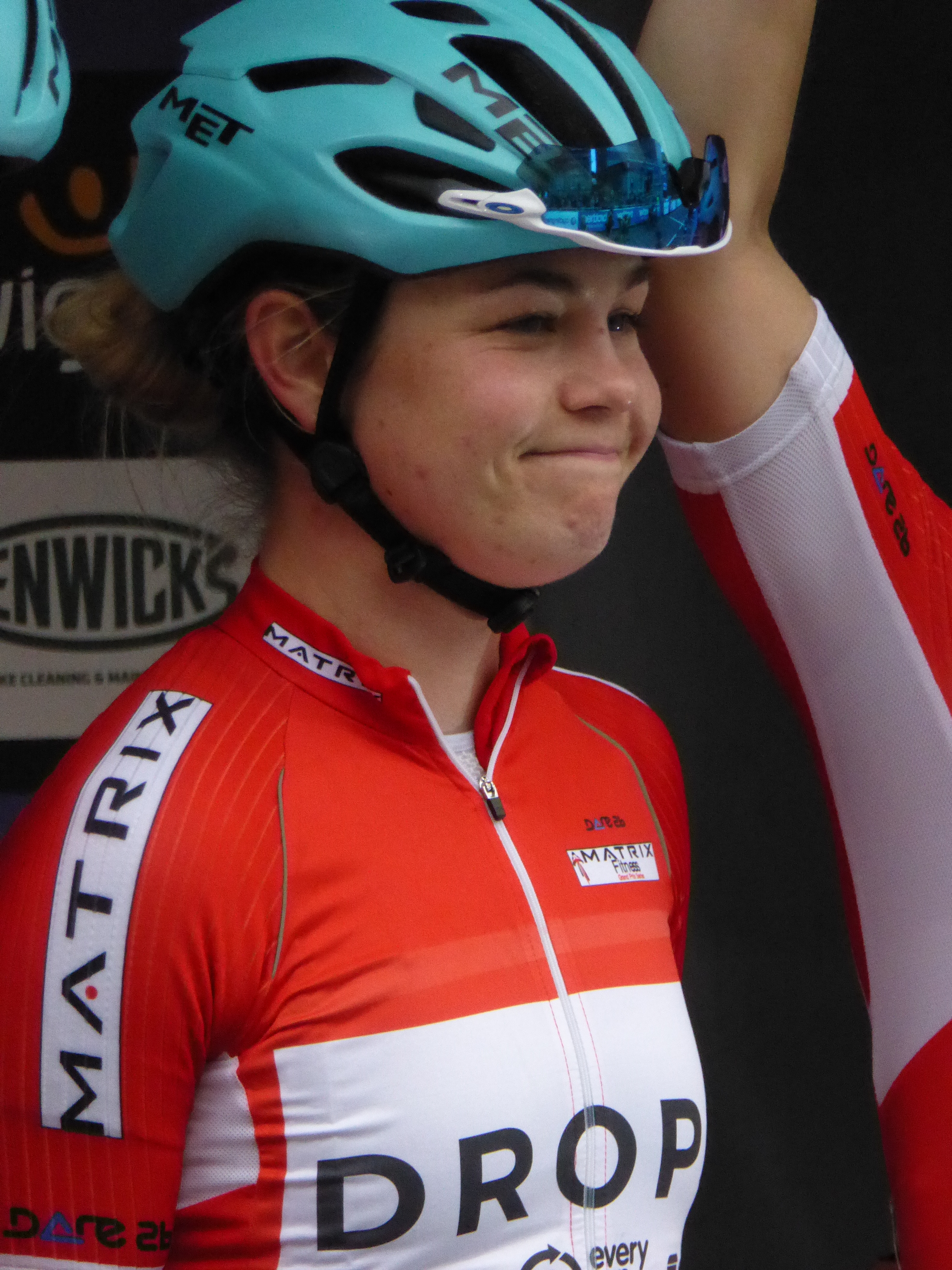 Rebecca Womersley (Drops), prior to Round 7 of the Matrix Fitness GP Series in Motherwell, on 23 May 2017.